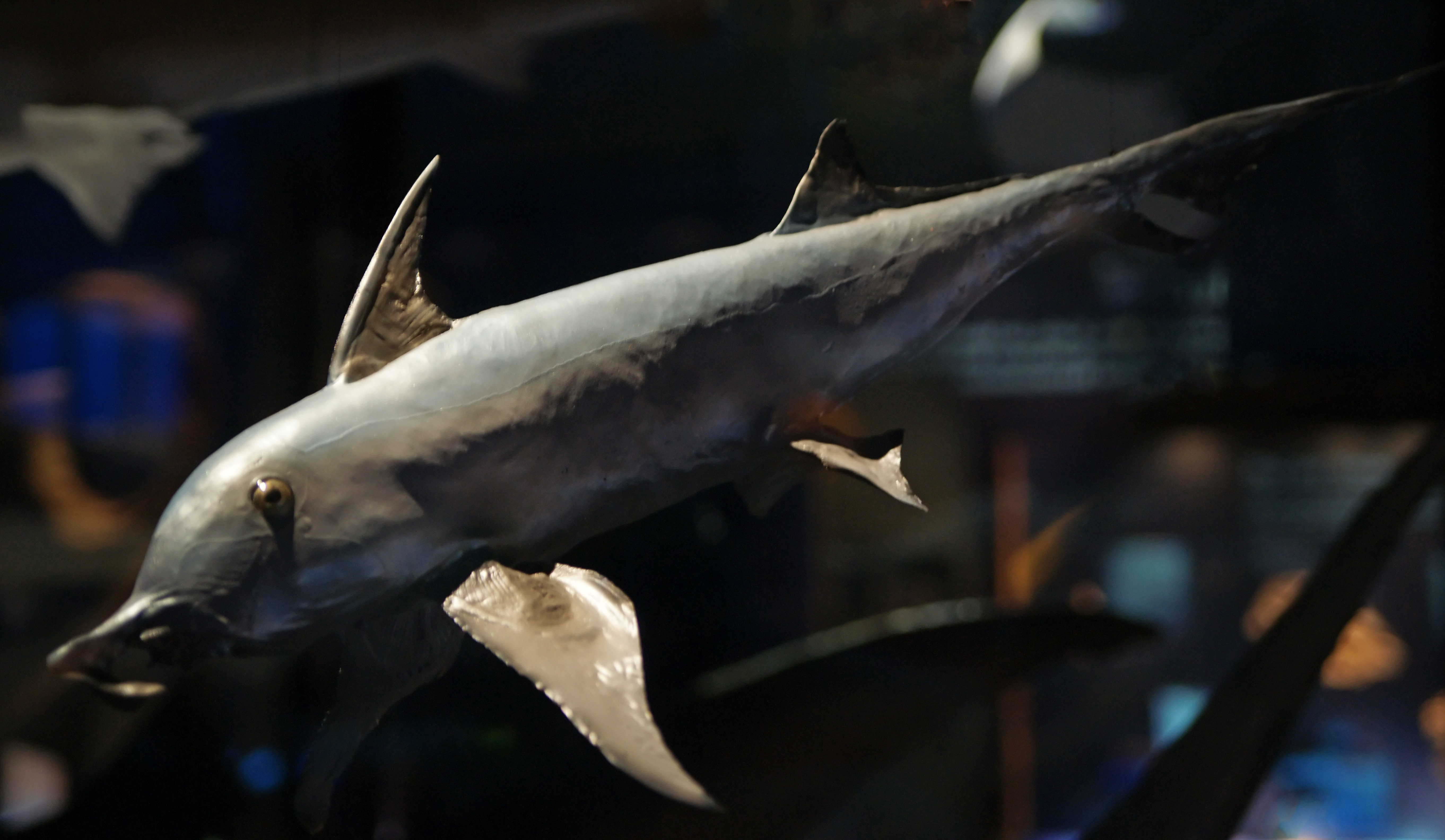 Elephantfish (Callorhinchus callorynchus), Naturhistorisches Museum Wien